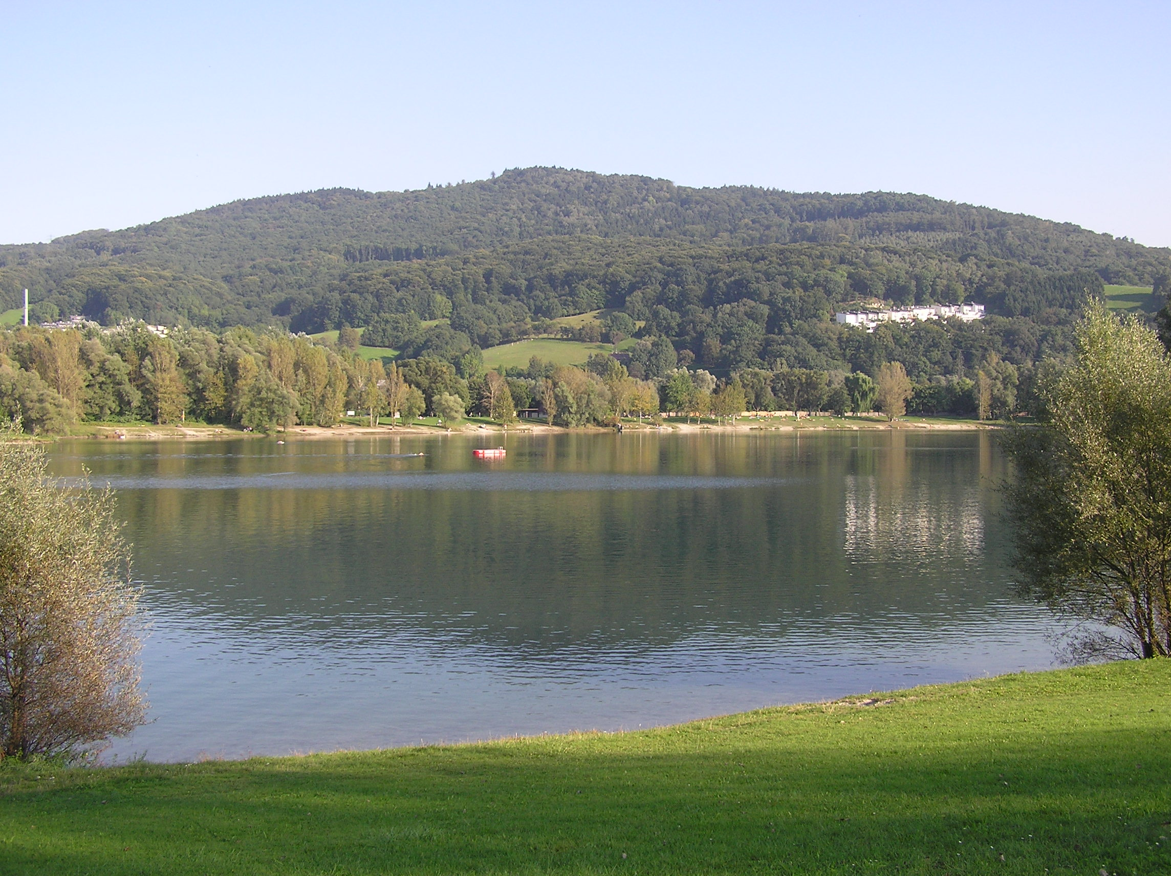 Pleschinger See (Plesching, Upper Austria), view from the northwest side.